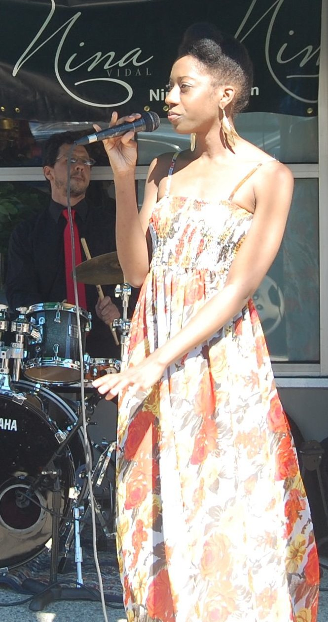 Nina Vidal at outdoor concert 2010